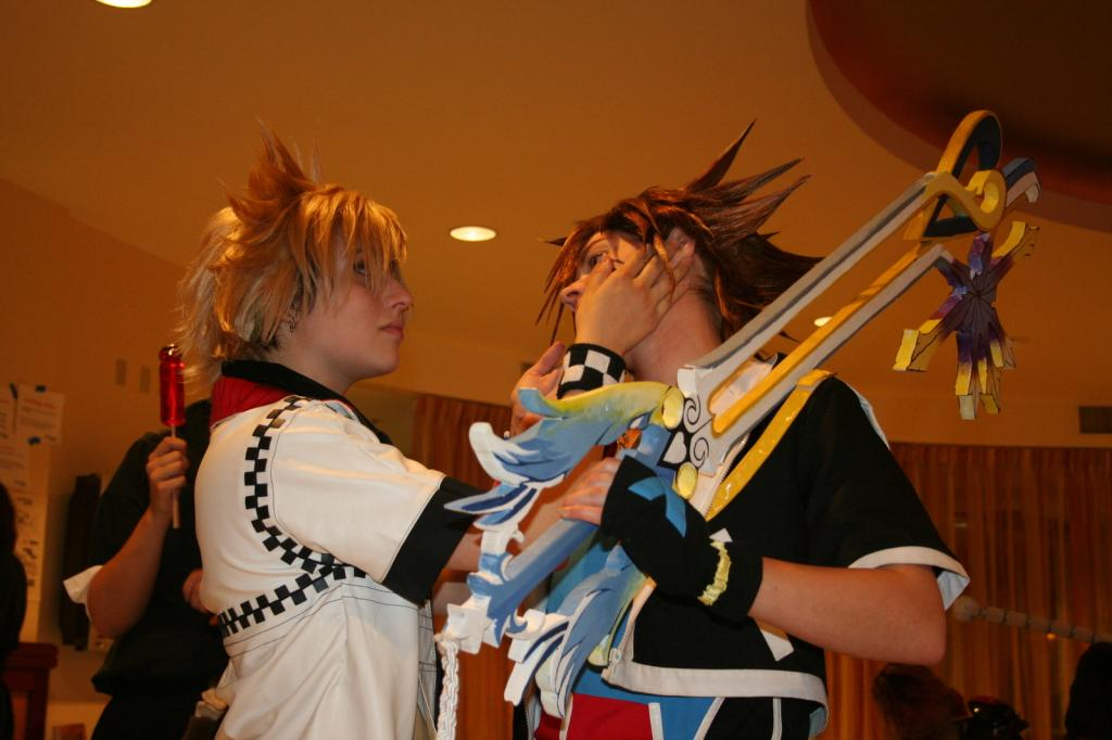 Photograph of two cosplayers as Sora and Roxas from the video game series Kingdom Hearts at Yaoi-Con 2008 striking a pose.